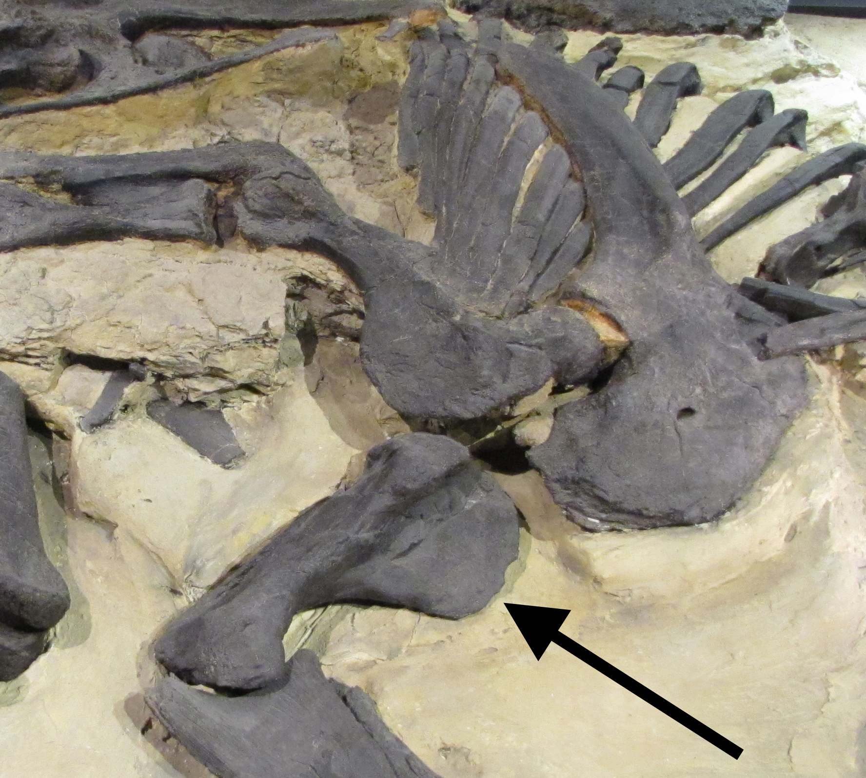 Deltopectoral crest on the humerus of Stegosaurus sp. (Aathal Museum, Switzerland). The specimen, "Lilly", has also been seen as cf. Hesperosaurus mjosi.